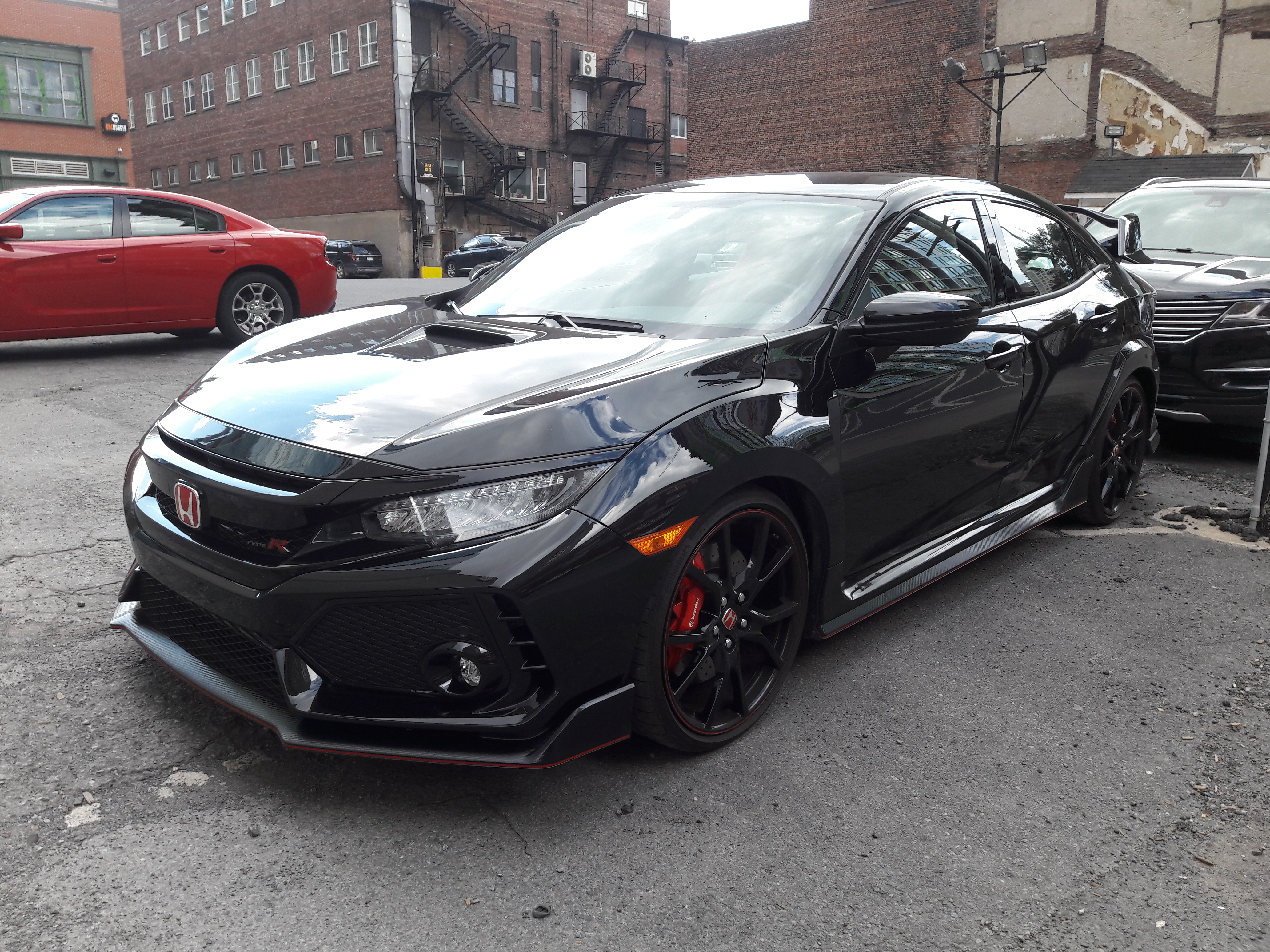 Honda Civic Type R